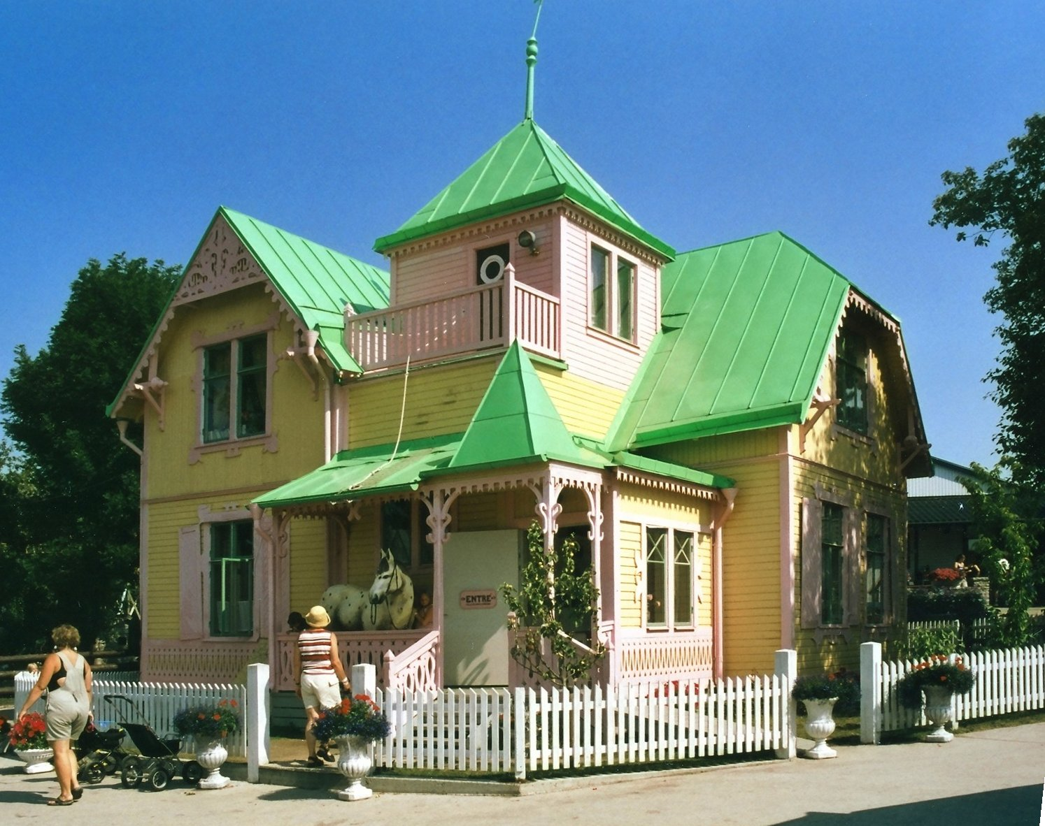 Villa Villekulla / Villa Kunterbunt from the popular series of children books (sv) Pippi Långstrump/(de) Pippi Langstrumpf/(en) Pippi Longstocking/(no) Pippi Langstrømpe by the swedish author Astrid Lindgren. This is the "real" one used in the popular TV series. It can be found in the leisure park "Kneippbyn" [1] on the island of Gotland in Sweden.